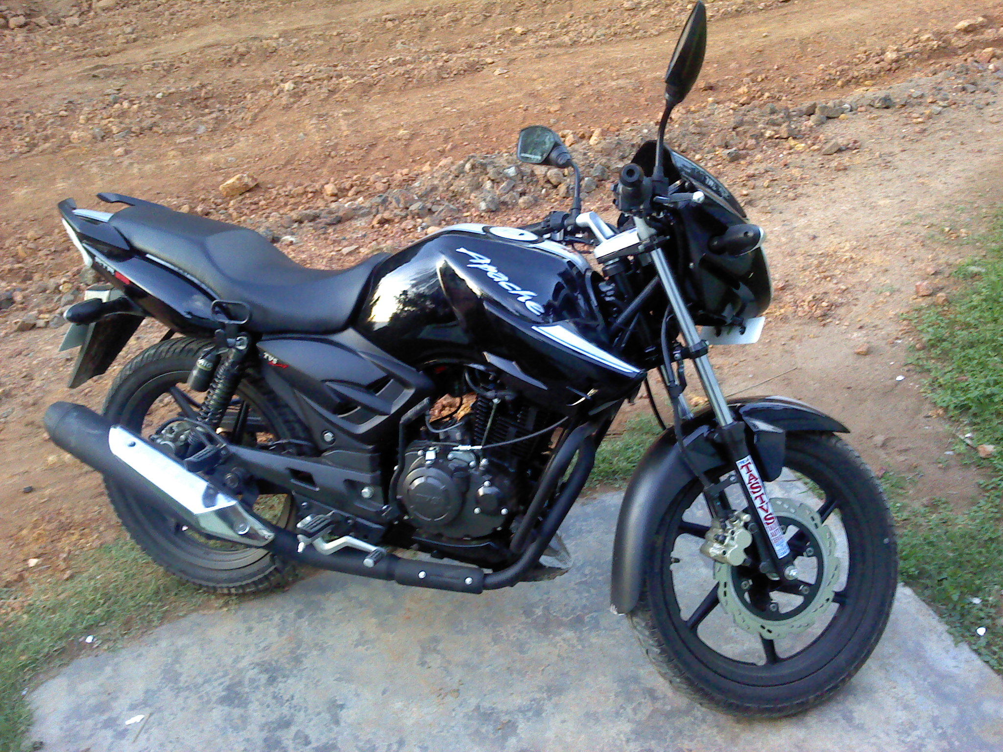 TVS Suzuki Apache series RTR 2010